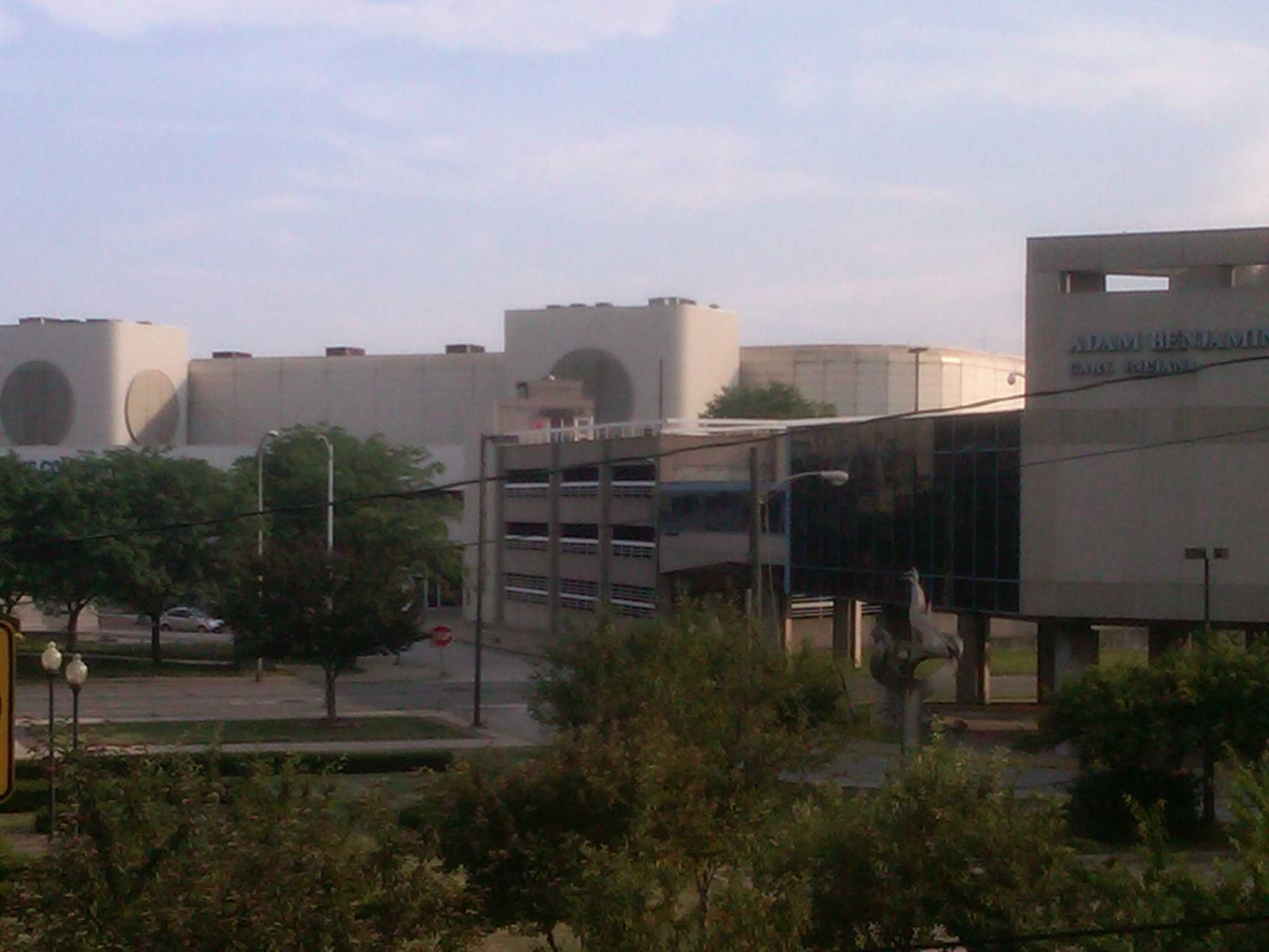 Genesis Convention Center and Gary Metro Center looking Southwest